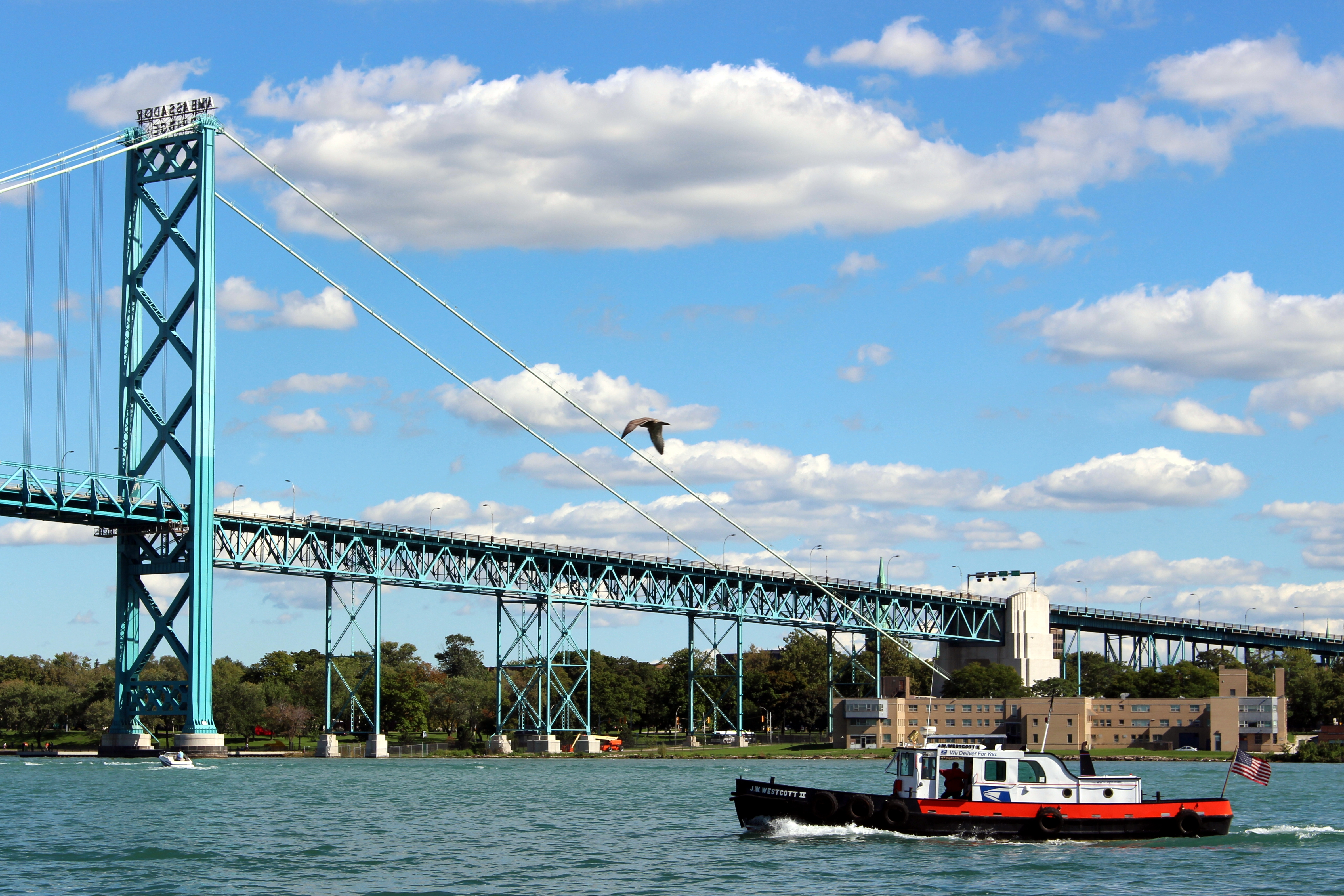 The J.W. Westcott II on the Detroit River in front of the Ambassador Bridge.